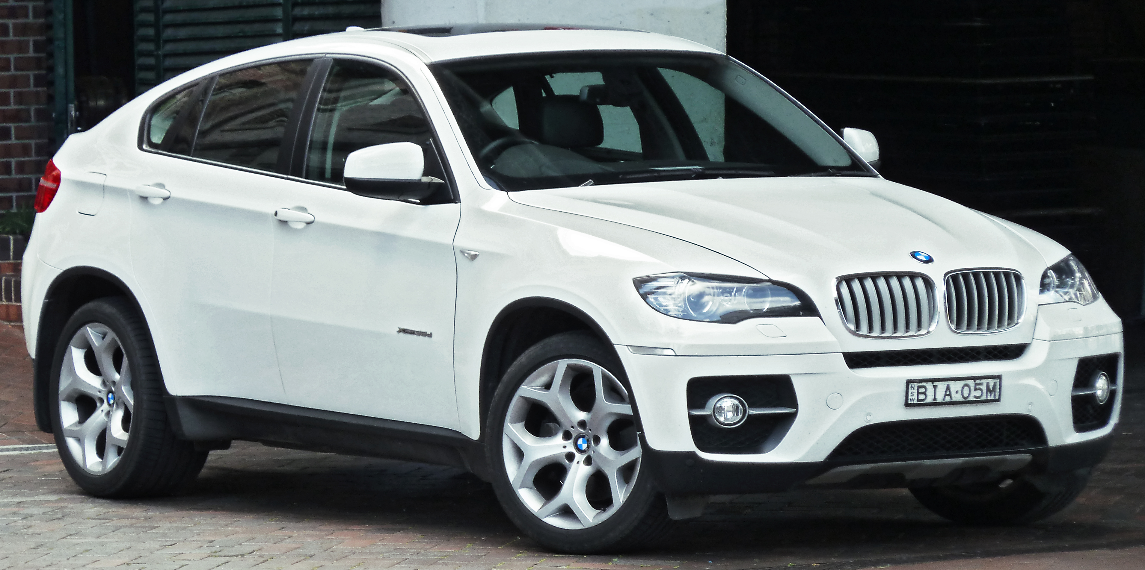 2008–2010 BMW X6 (E71) xDrive35d wagon. Photographed in The Rocks, New South Wales, Australia.